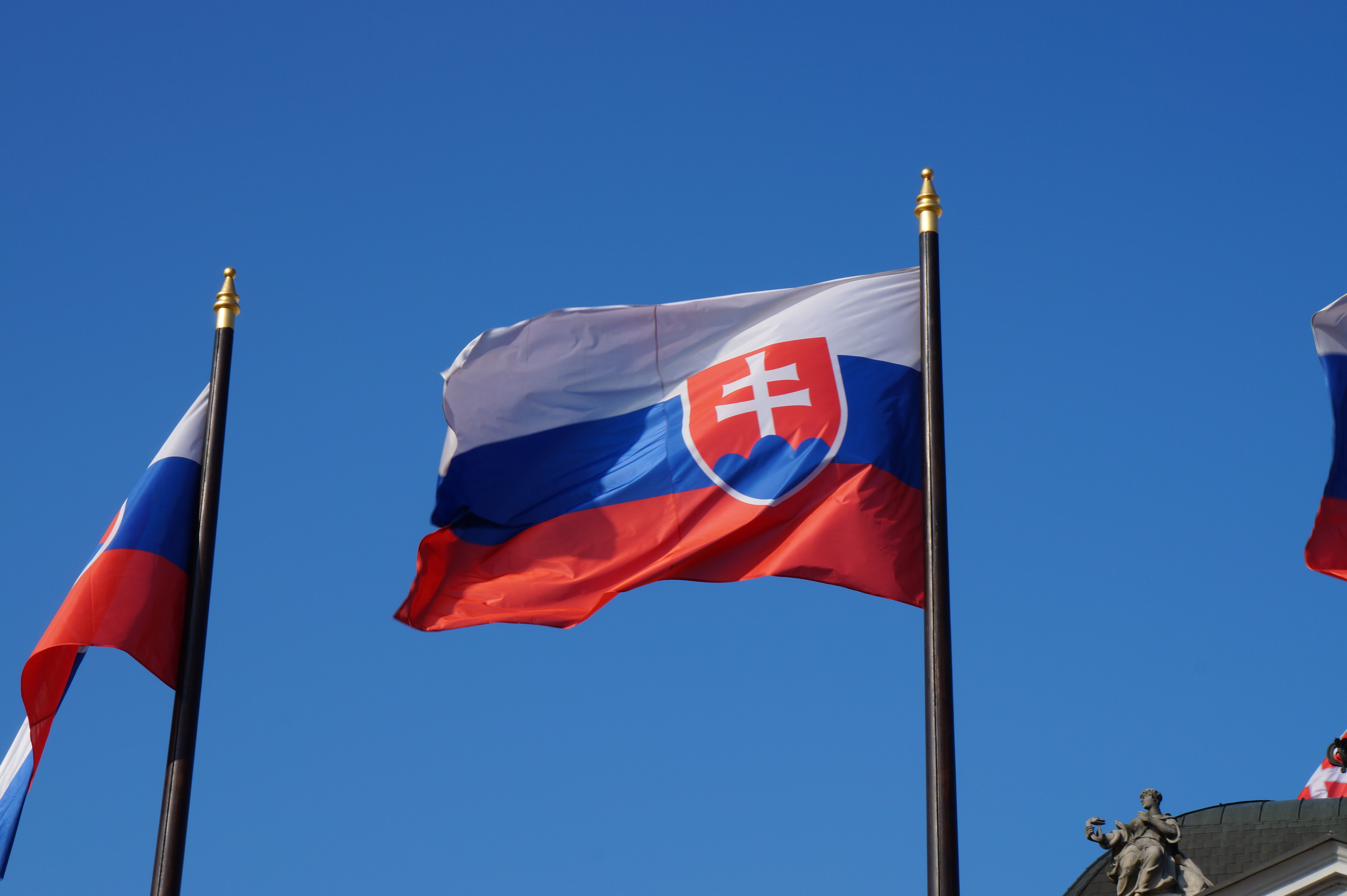 Slovak Flag (Option 3 of 4)